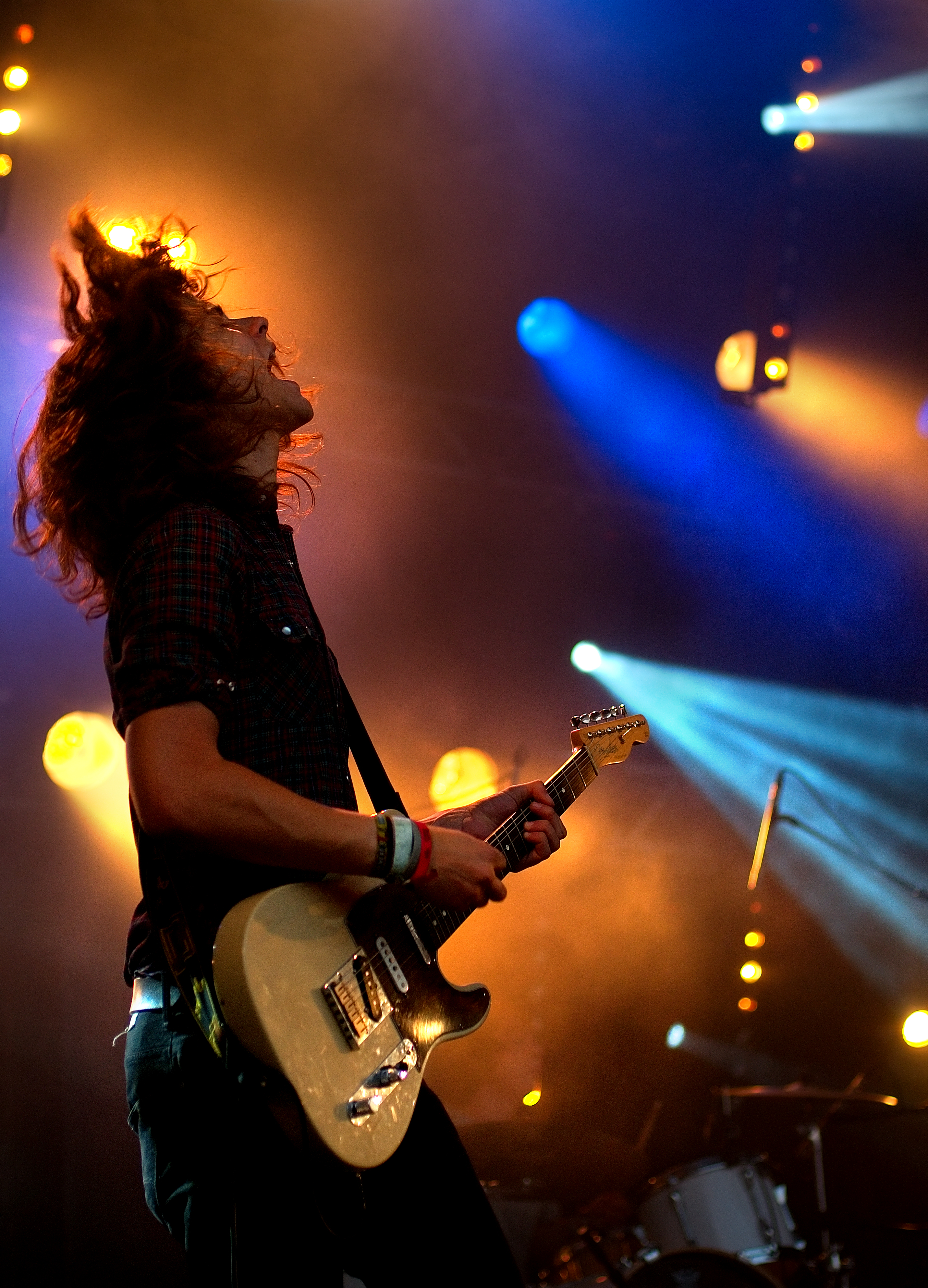 Freaky Age a Belgian four-piece Indie-rockband from Ternat Belgium